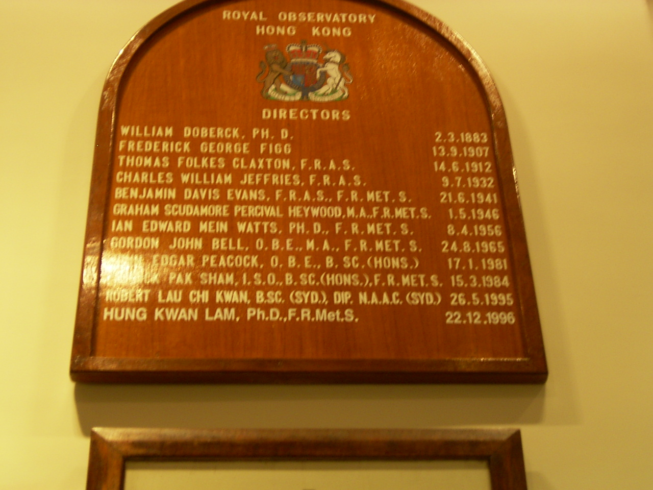 HK Observatory Directors